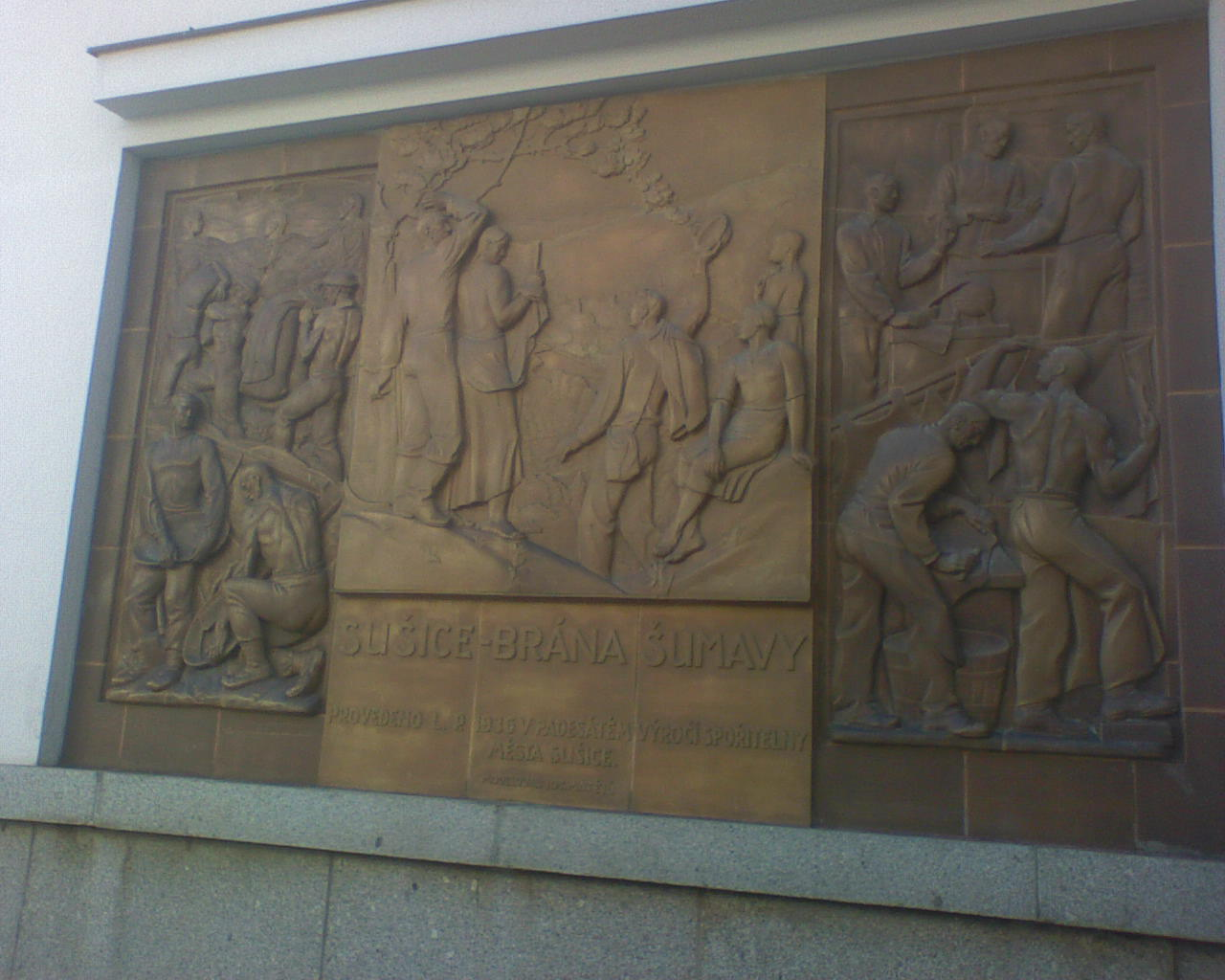 "Bohemian Forest Gate"